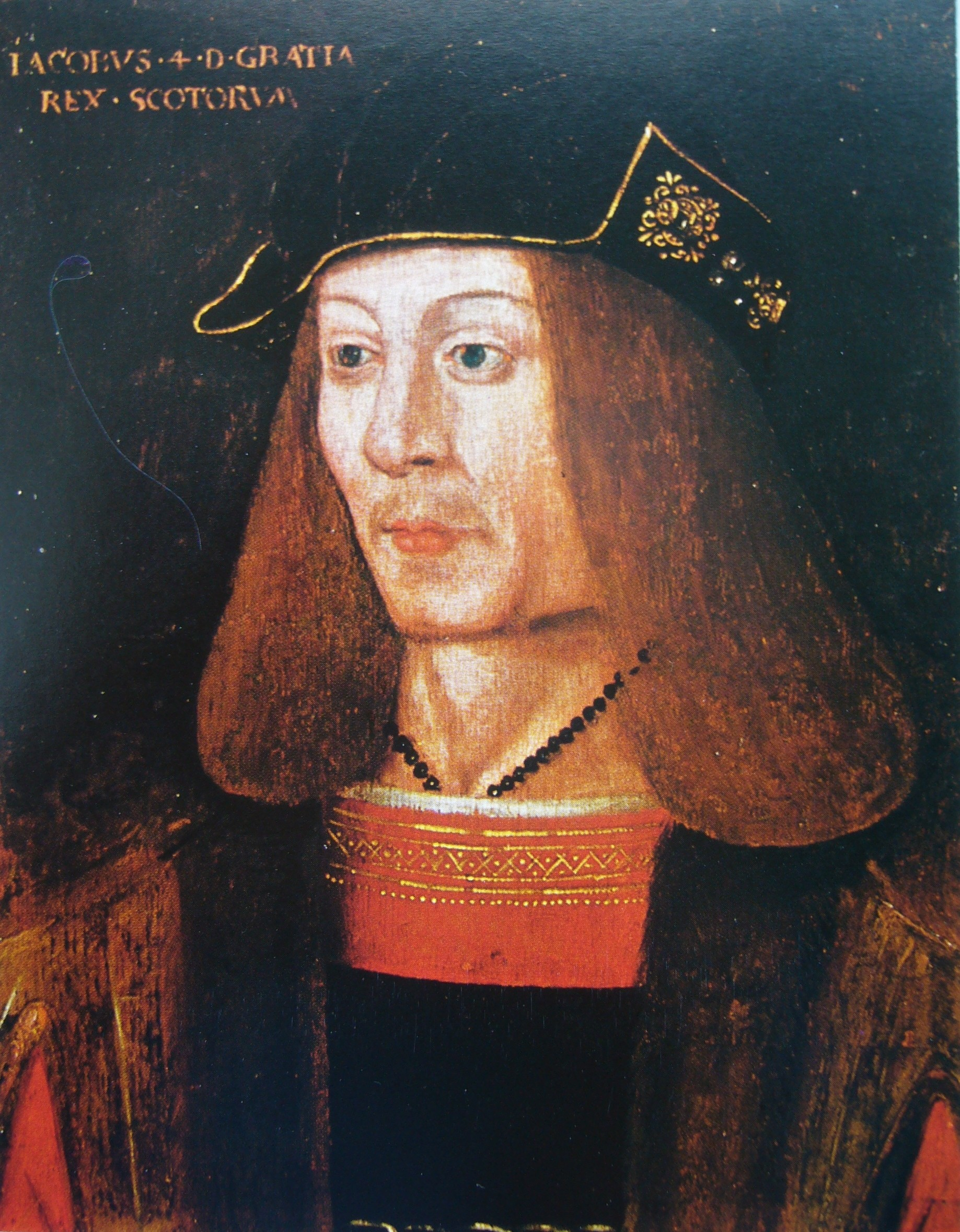 Portrait of James IV, King of Scots